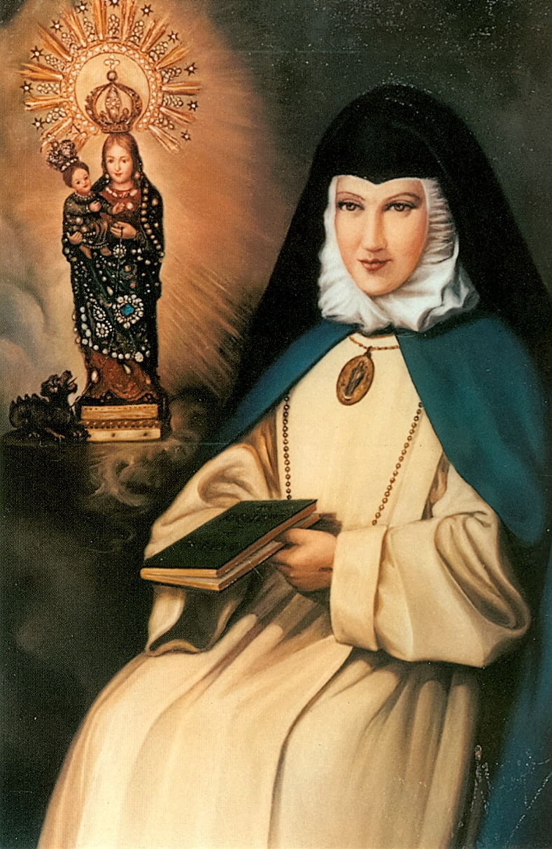 Maria Rafaela Quiroga, Sor Patrocinio, portrait. She was a conceptionist nun at Spain, in 19th cent., counselor of queen Elisabeth II of Spain.